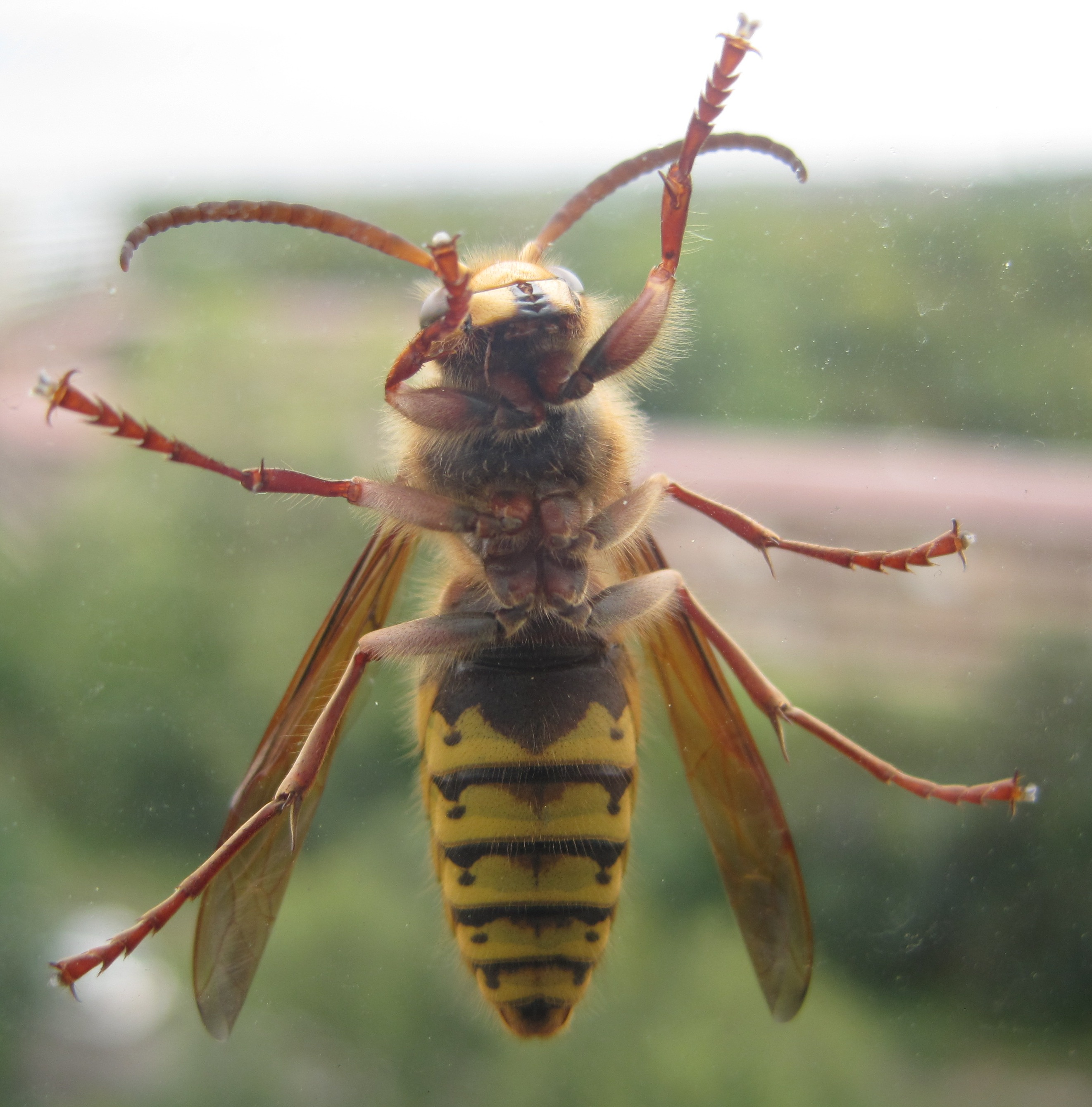 European hornet (Vespa crabro). Ventral view. Probably male. Nijmegen, Netherlands.